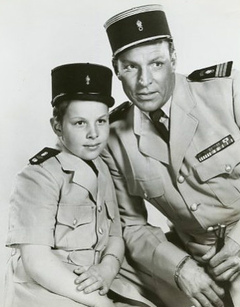 Publicity photo of Cullen Crabbe (Buster's son) and Buster Crabbe from Captain Gallant of the Foreign Legion.